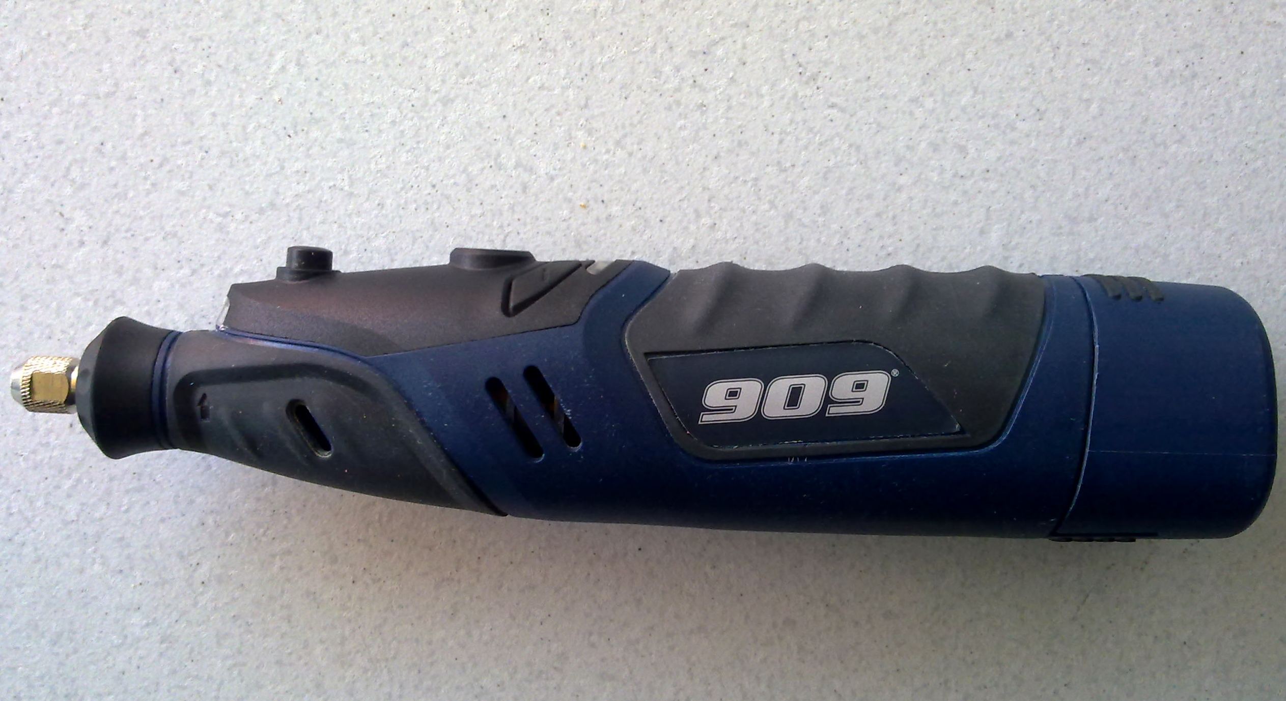 909 Cordless Rotary Tool.